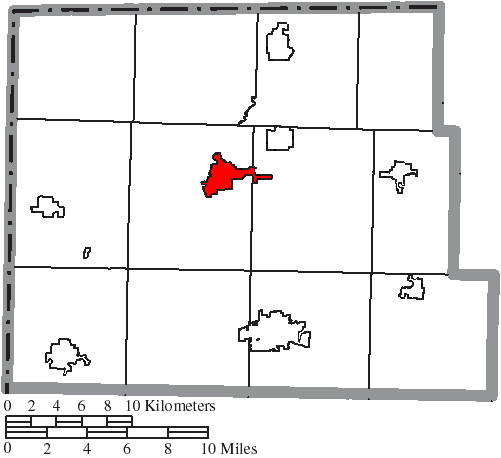 Map of the municipal and township boundaries of Williams County, Ohio, United States, as of the 2000 census, with the location of the village of Montpelier highlighted. Township borders are shown only in unincorporated areas in order to differentiate incorporated and unincorporated areas more clearly.